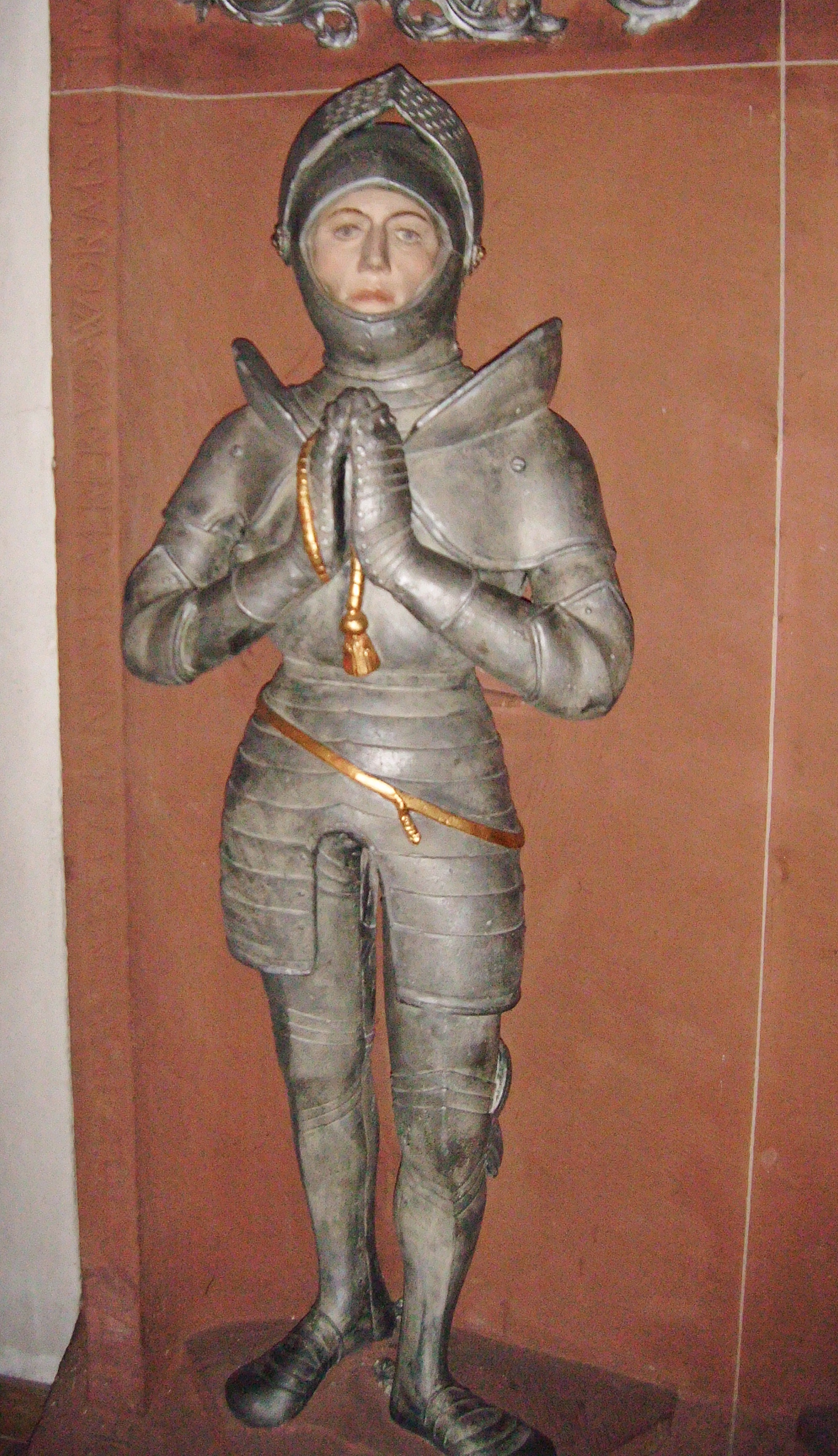 Sankt Martin, kath. Pfarrkirche, Figur des Ritters Hanns (Johann) von Dalberg (+1531)